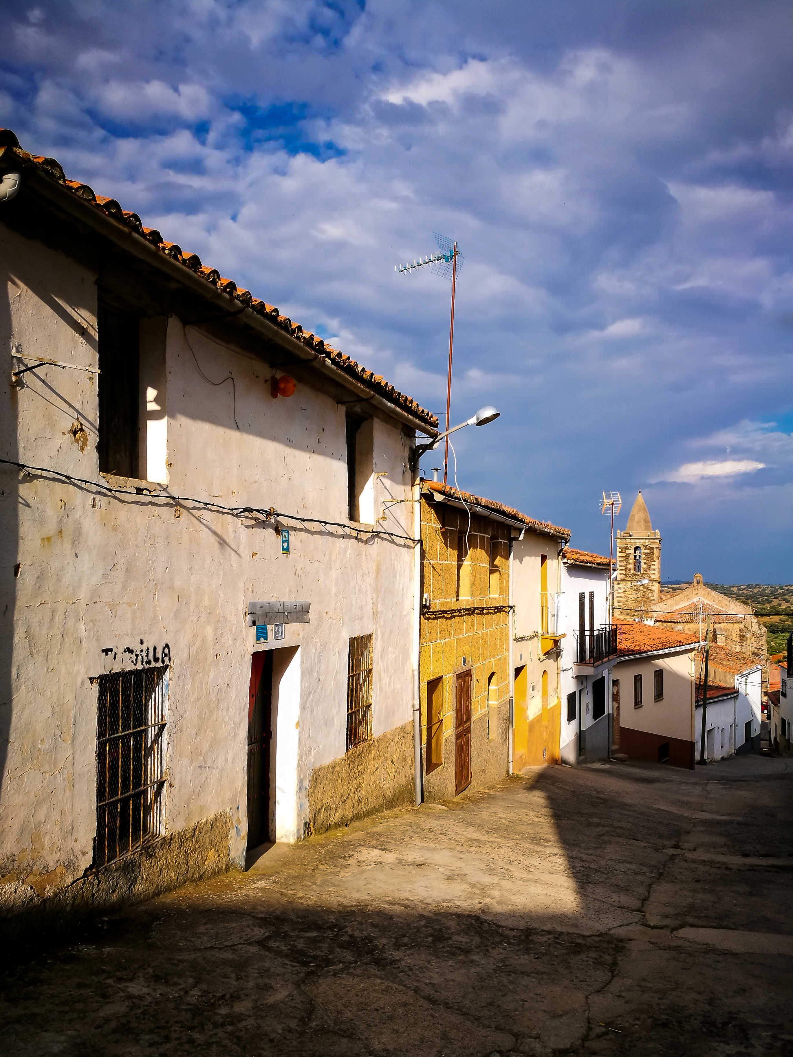 Detail of Mirabel's street